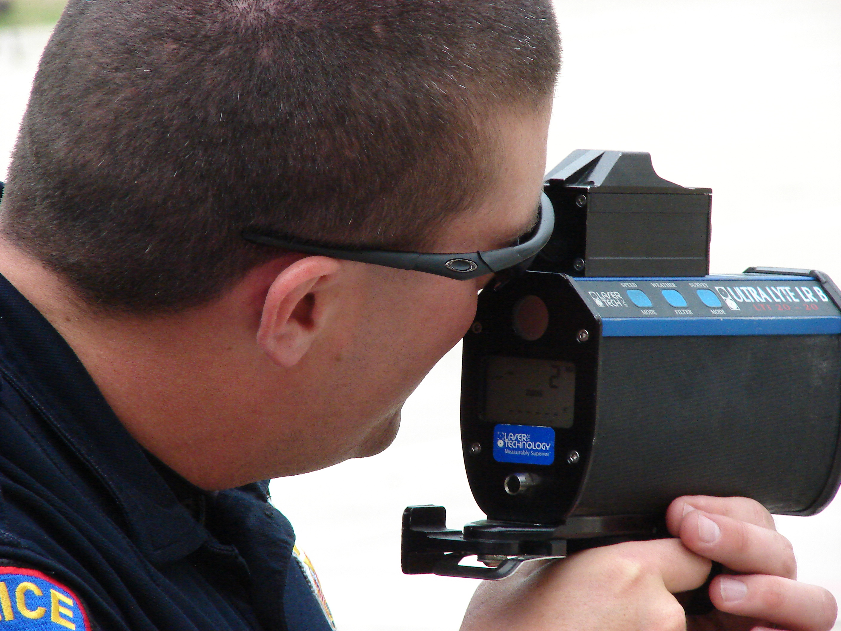 Texas police officer using a LIDAR laser speed detection gun.